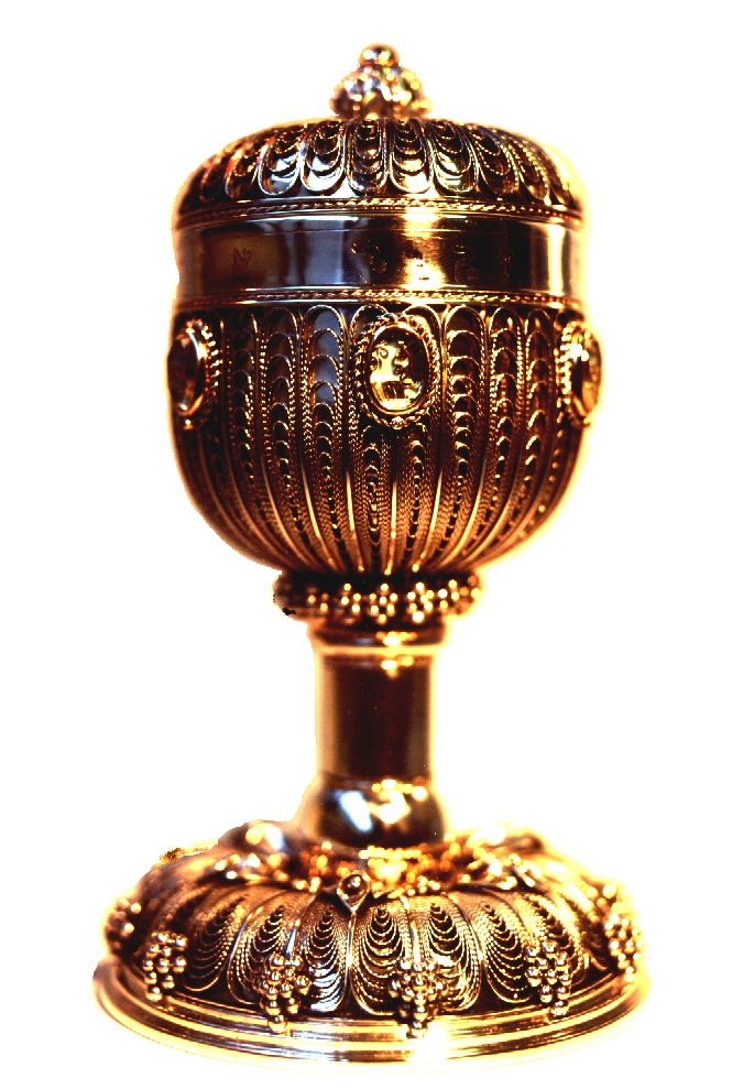 The chalice, made from gold and silver decorated with cloisonne enamels, Australian diamonds and labradorite from New South Wales, designed by Joanna Angelett.